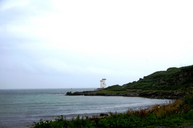 Carraig Fhada A lighthouse overlooking Port Ellen and its approaches.